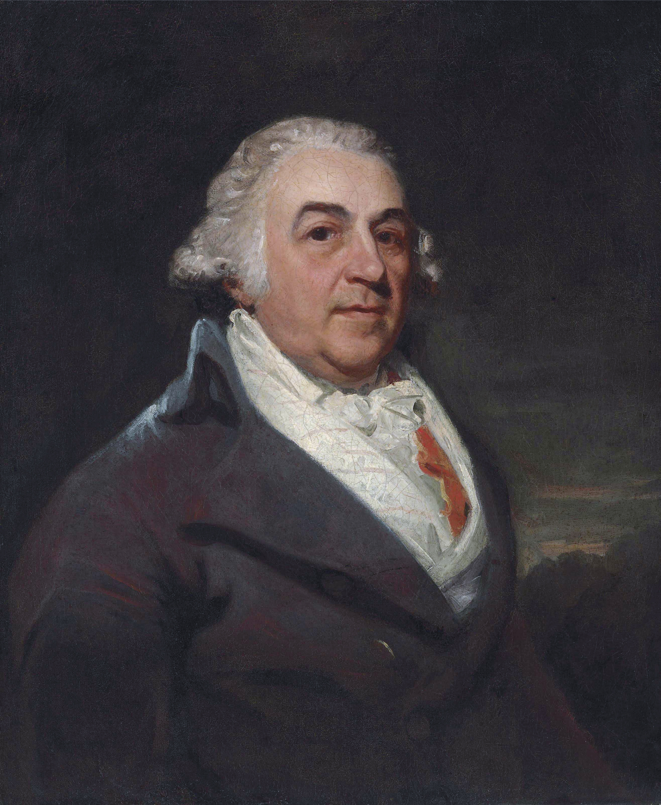 Richard Bache (1737-1811) oil on canvas 74.9 x 62.2 cm 19th century